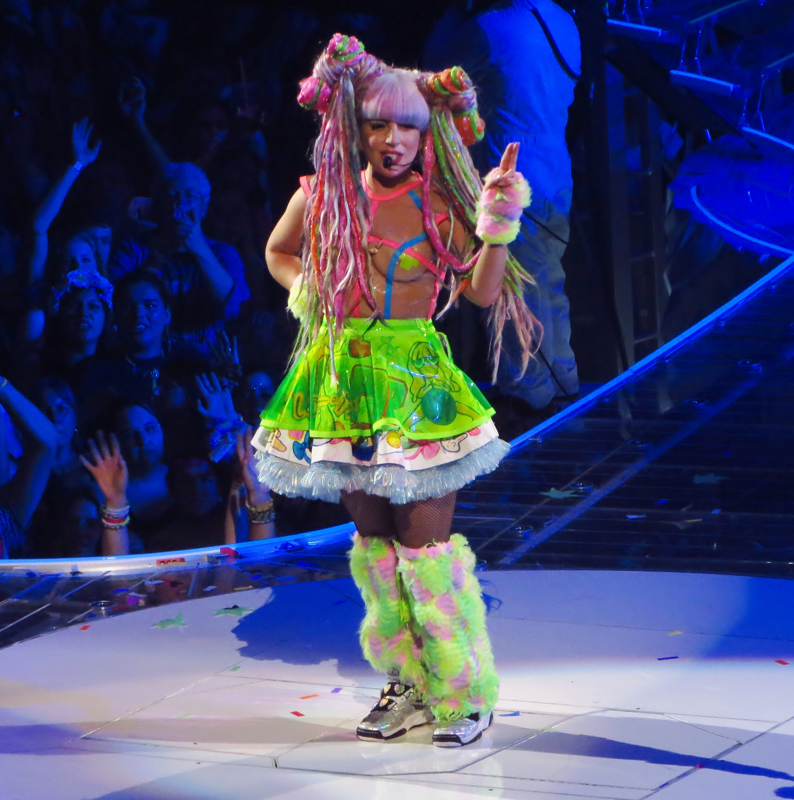 Lady Gaga, ARTPOP Ball Tour, Bell Center, Montréal, 2 July 2014 (119) Gaga performing on ArtRave: The Artpop Ball tour